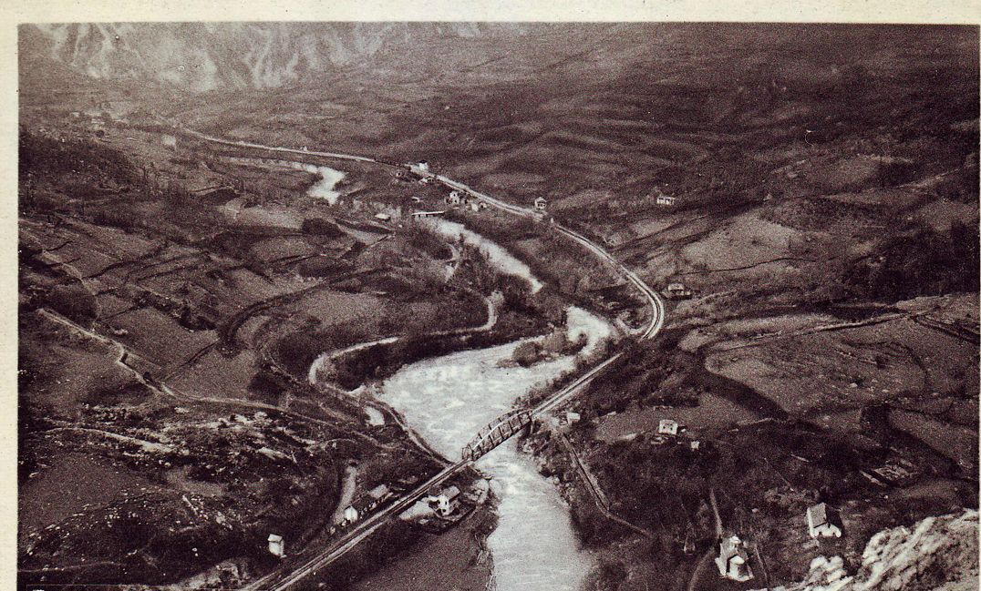 Ostrovica valley, Sicevo Gorge, 19. century. Srpski (latinica): Ostrovička kotlina, kao jedan od četri dela kompozitne Sićevačke klisure. Slika je nastala s kraja 19. veka.